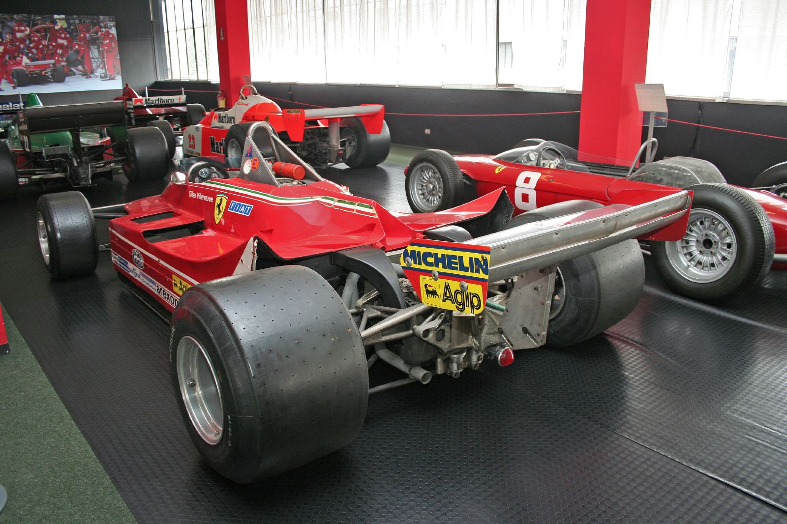 FERRARI mod. 312 T5 at MUSEO DELL'AUTOMOBILE Torino